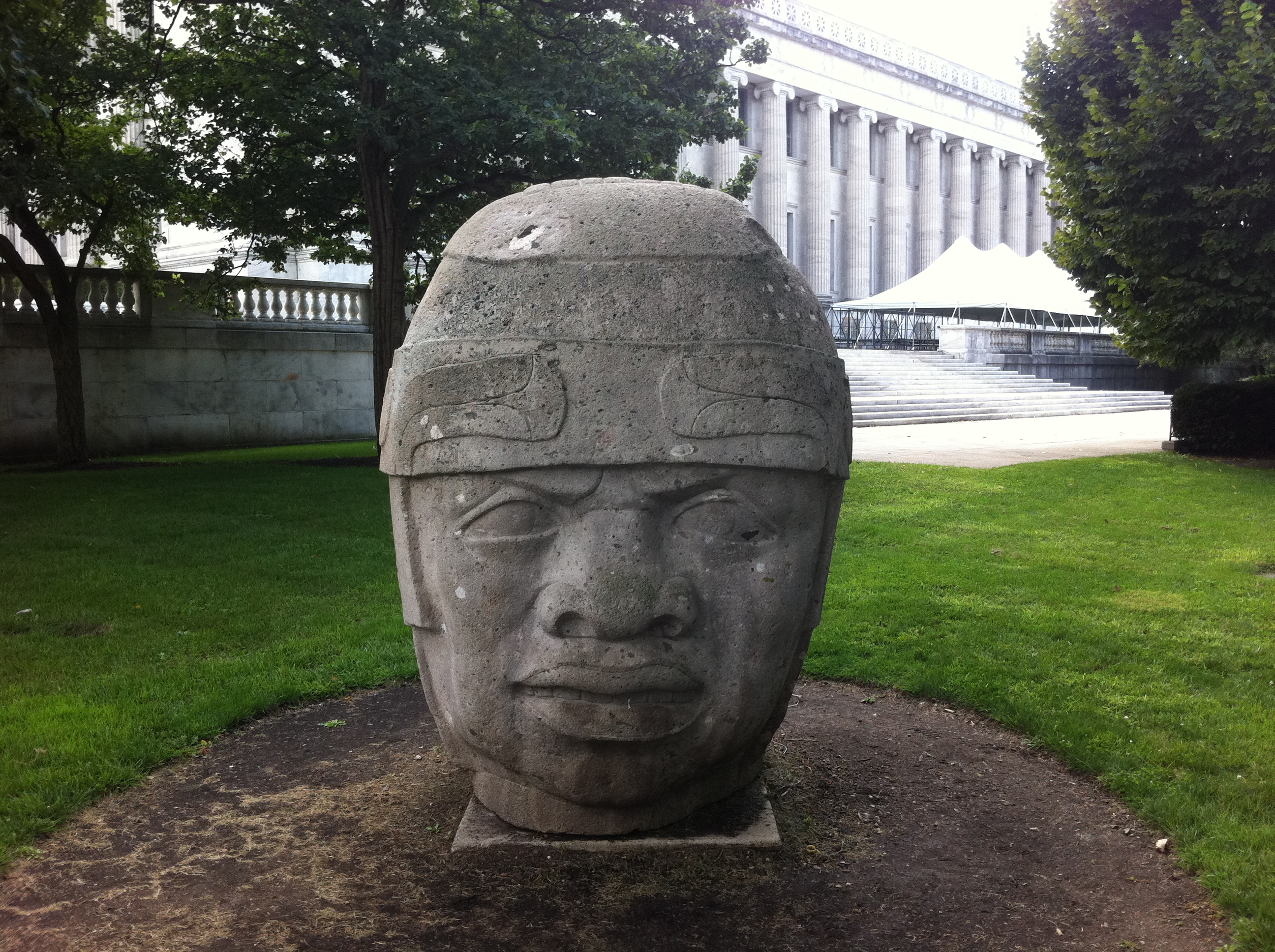 Reproduction of Olmec Head #8 (from San Lorenzo Tenochtitlán), outside the Field Museum of Natural History in Chicago.